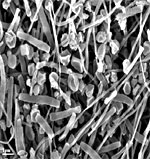 Scanning electron micrograph of the Obsidian Pool enrichment culture.